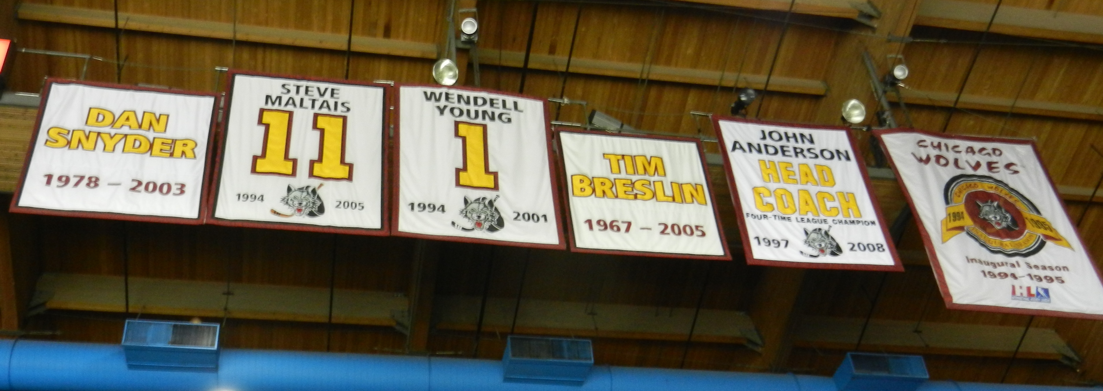 Banners for retired numbers and honored personnel for the Chicago Wolves. From Left to Right: Dan Snyder, Steve Maltais, Wendell Young, Tim Breslin, John Anderson, Inaugural season 1994-95